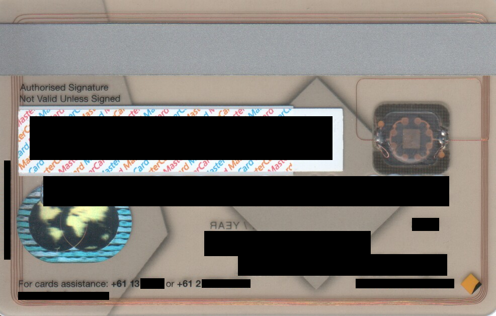 Commonwealth Bank of Australia issued Mastercard. Semi transparency shows PayPass antenna, connecting to RFID chip. Scanned copy of my own card.